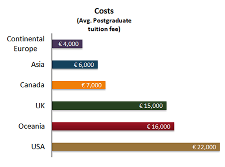 The graph shows the average international tuition fee for post-graduate eduation at the TIMES Higher Education Top 100 univerisities 2008, by region. Based on the exchange rate of 07/02/2009.